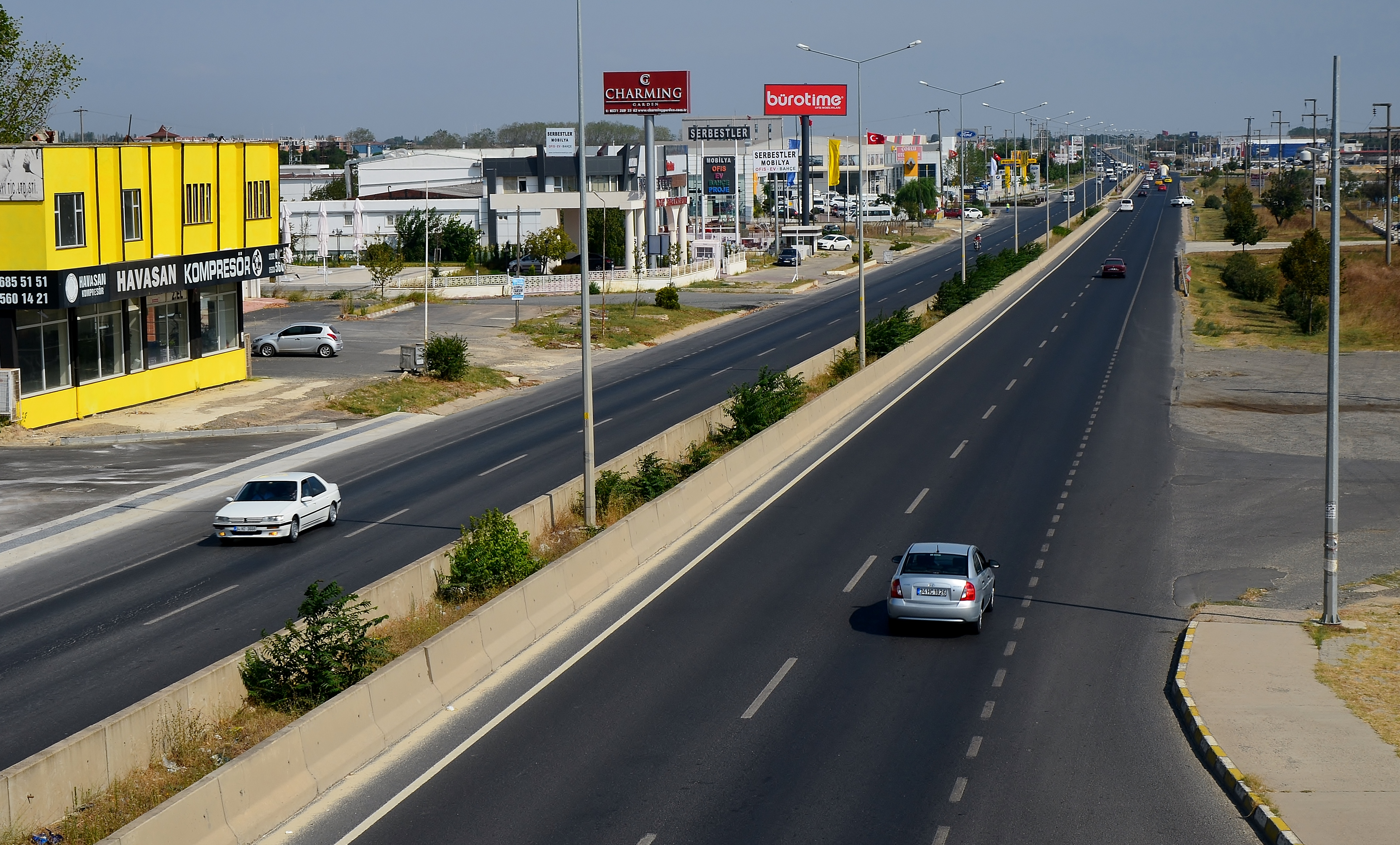 Outbound highway in Çorlu, Tekirdağ Province, Turkey